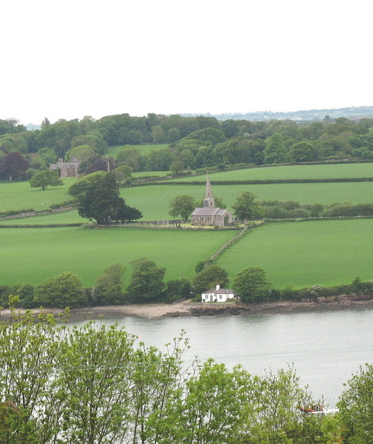 A View of Llanedwen, Ynys Mon. This view has been taken from Y Felinheli, about a mile away. The buildings are (distant left) Plas Coch, (middleground), Llanedwen Church, and, (foreground), the old ferry tavern at Moel-y-don.